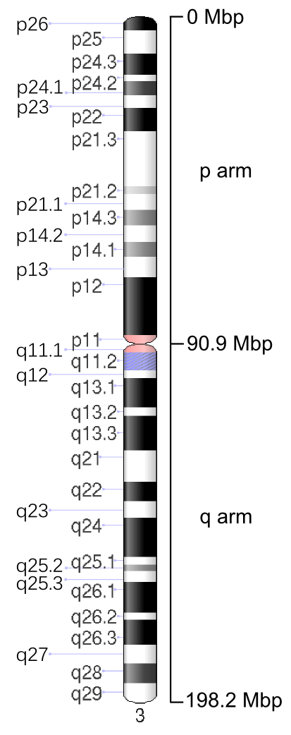 Ideogram of human chromosome 3. G-band, 550 bphs (bands per haploid set). Black and gray: Giemsa positive. Red: Centromere. Light blue: Variable region. Dark blue: Stalk. Mbp: Mega base pairs.